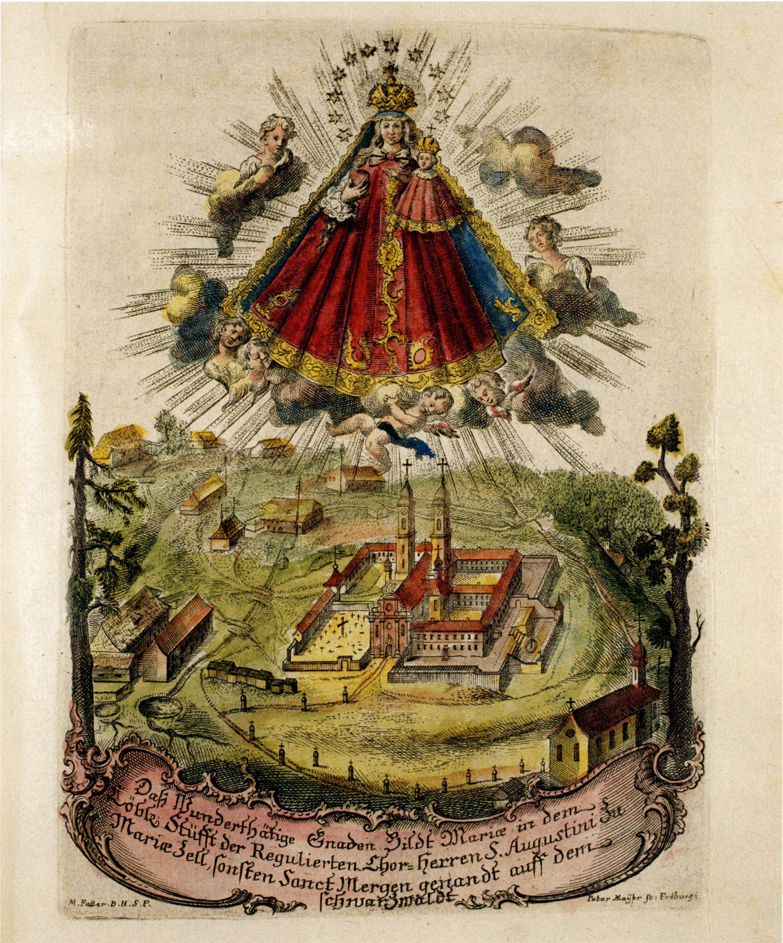 Small painting for pilgrims visiting St. Märgen, Germany